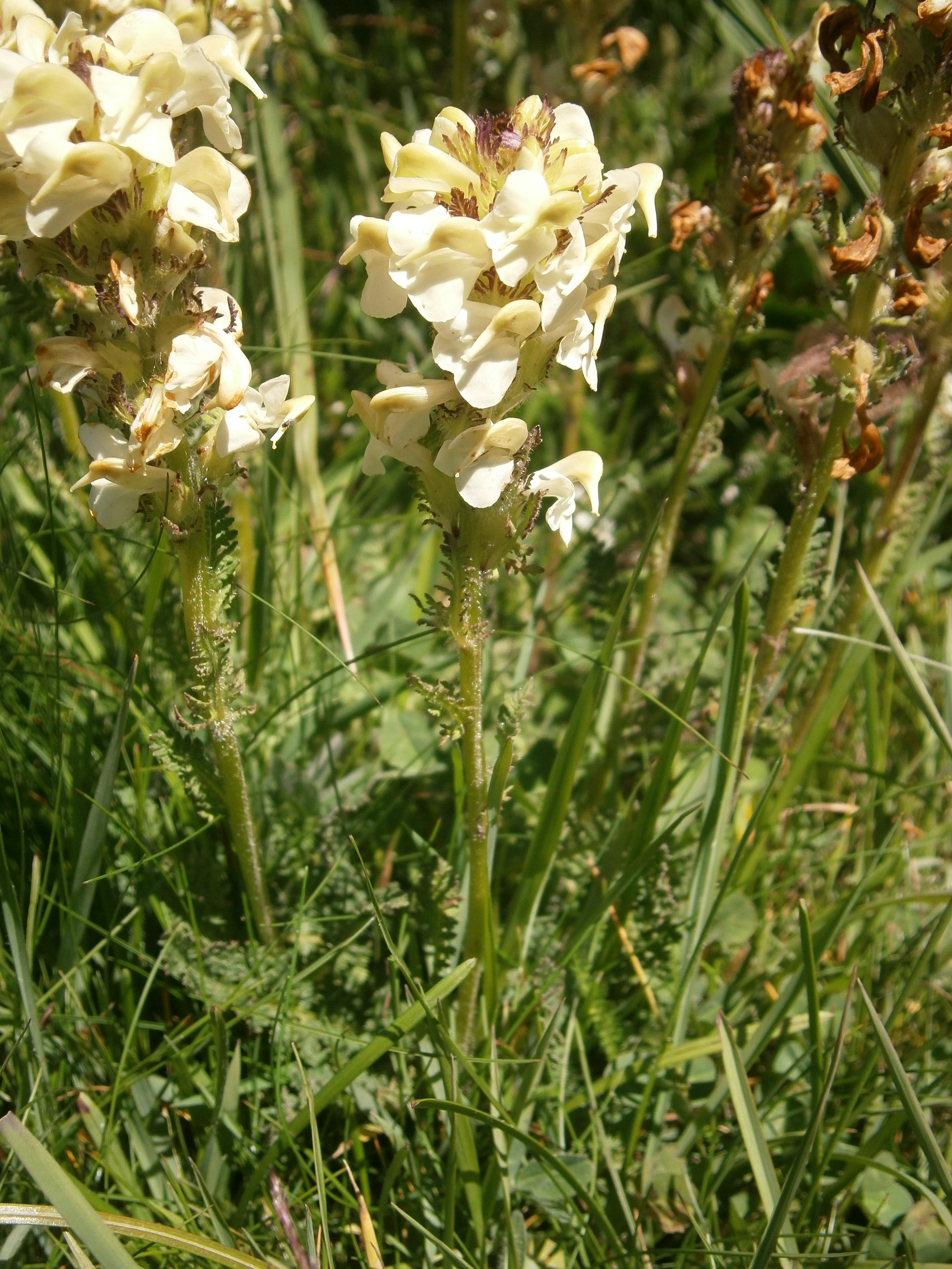 Pedicularis ascendens